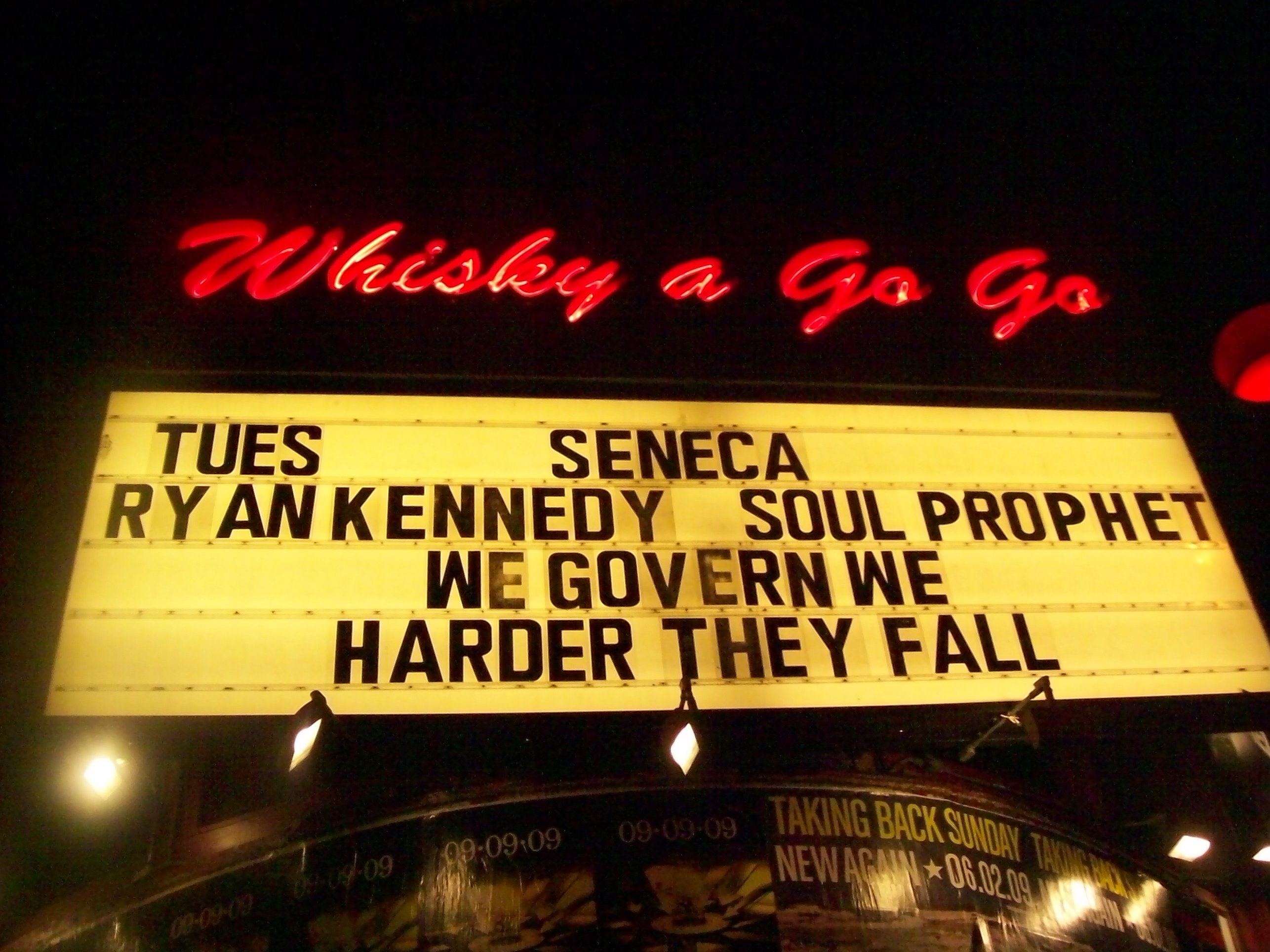 Marquee outside Whiskey a Go Go on the Sunset Strip, West Hollywood, California, June 2, 2009